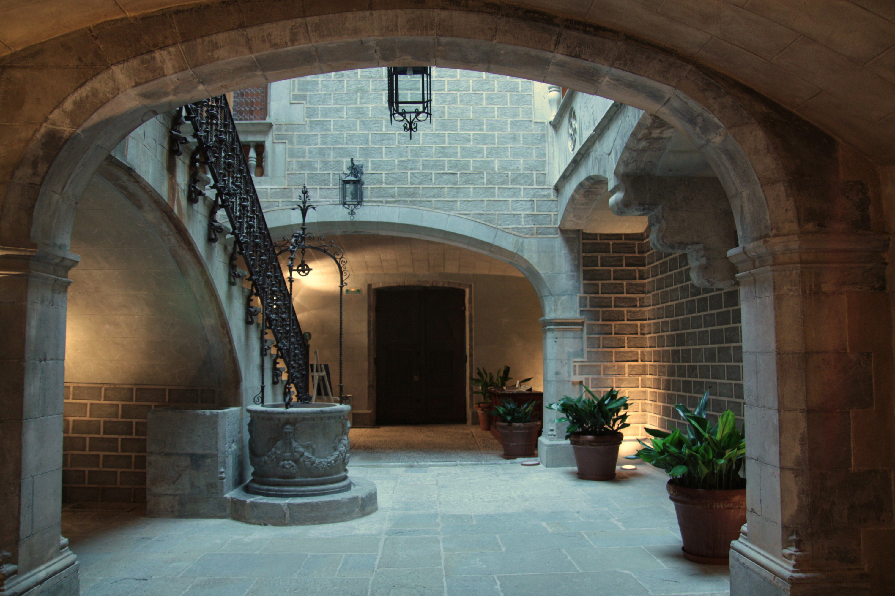 Palau Solterra Museum is the Fundació Vila Casas Museum of Contemporary Photography (National and International artists) located in the town of Torroella de Montgrí in the Empordà region of Catalonia. It was opened in 2000. There are presently approximately 200 contemporary photographs on display by artists from around the world.